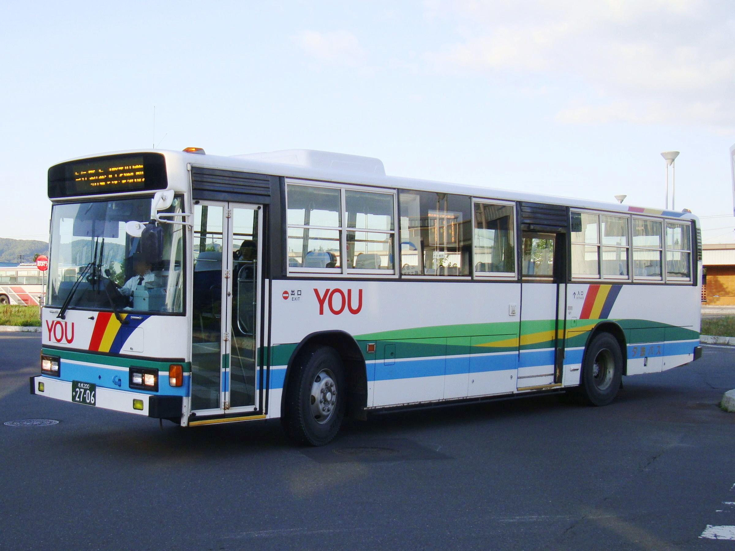 Kuriyama Station to Shin-Sapporo Station